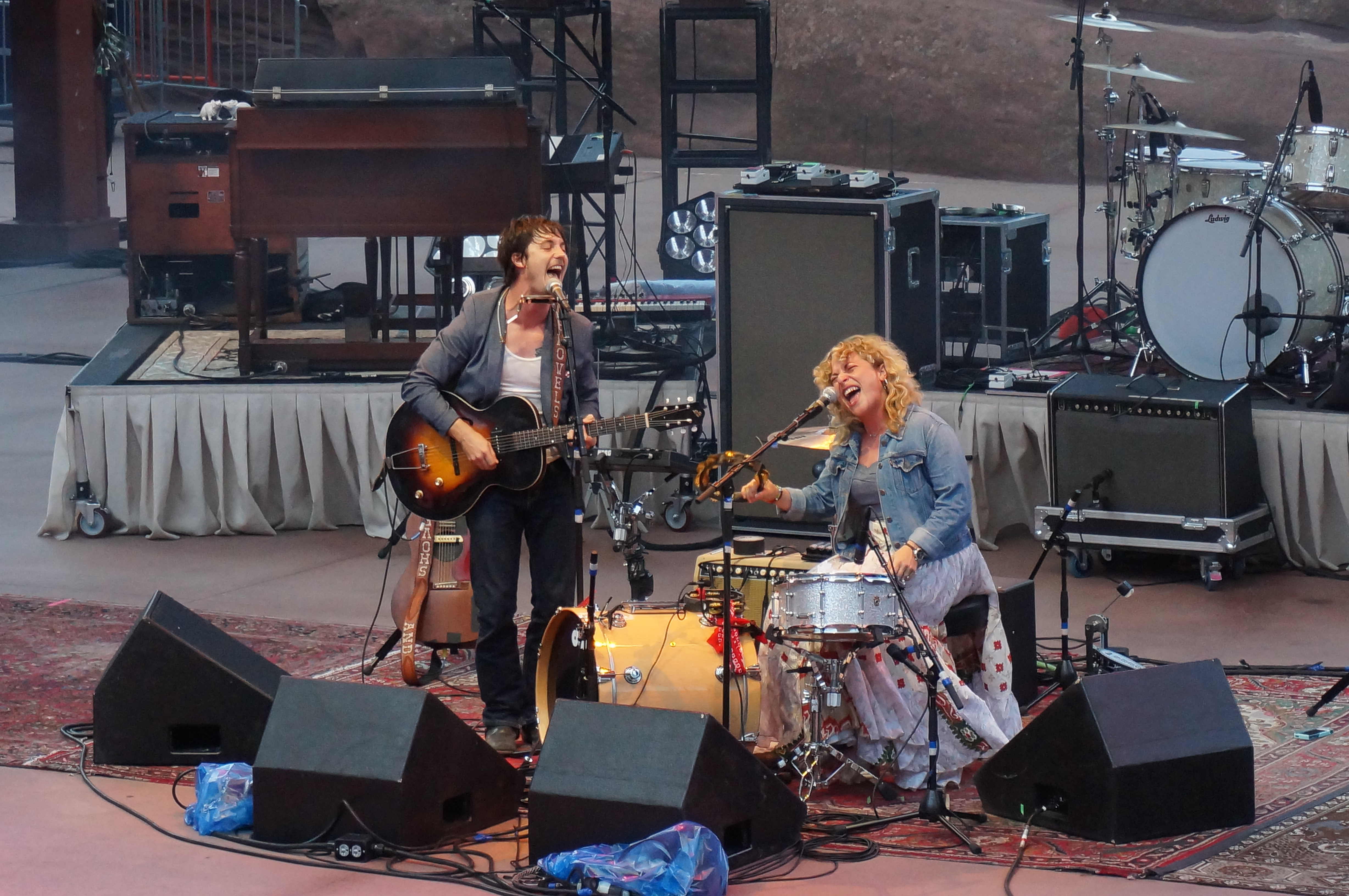 Shovels & Rope opening for The Avett Brothers at Red Rocks Amphitheater in Morrison Colorado on July 13 2014.